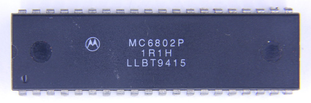 IC photo